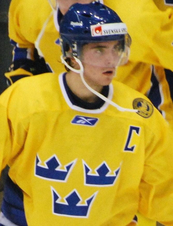 Marcus Johansson during a pre-tournament game against Canada at the 2010 World Junior Ice Hockey Championships, played in Regina, Saskatchewan, Canada on 20 December 2009. Canada won, 6-2.